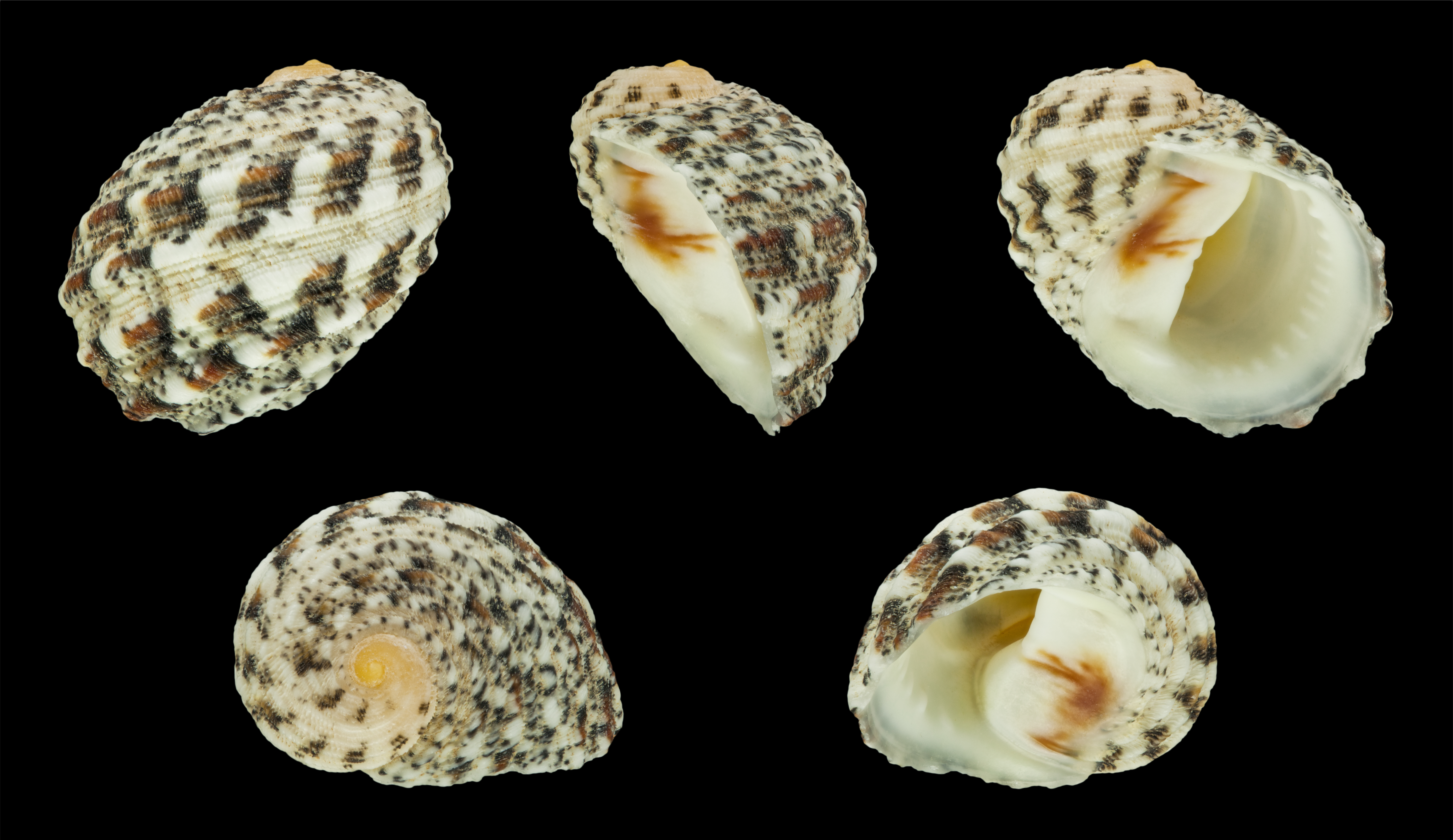 Nerita signata Lamarck, 1822, Reticulate Nerite, spotted form; Diameter 1.6 cm; Originating from the Philippines; Shell of own collection, therefore not geocoded.